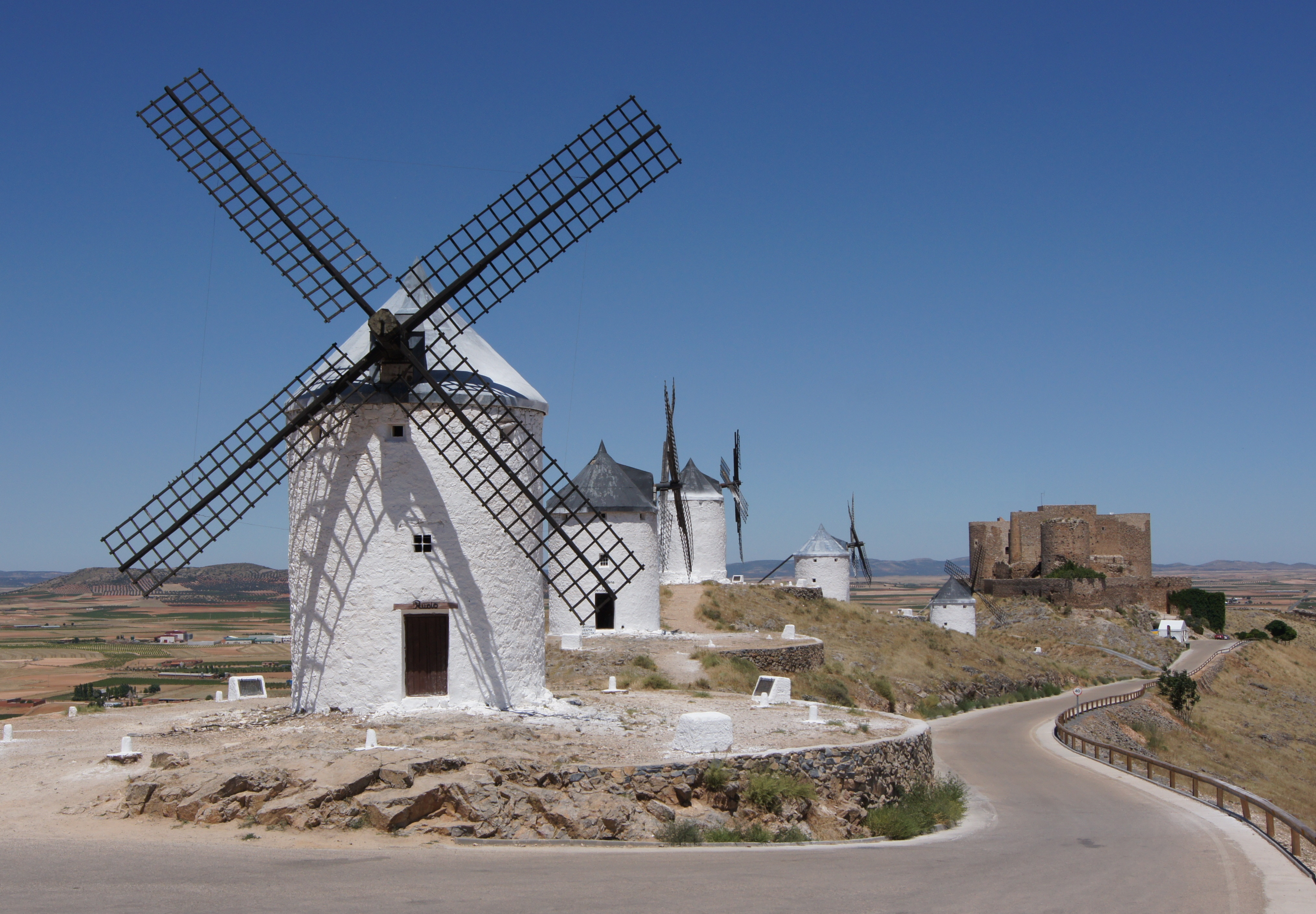 Windmills in Consuegra, La Mancha, Spain